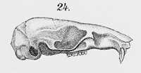 This picture is extracted from "Leche 1886 plate 16.png"; fig. 24. It shows the skull and the upper jaw of the Akodon azarae.